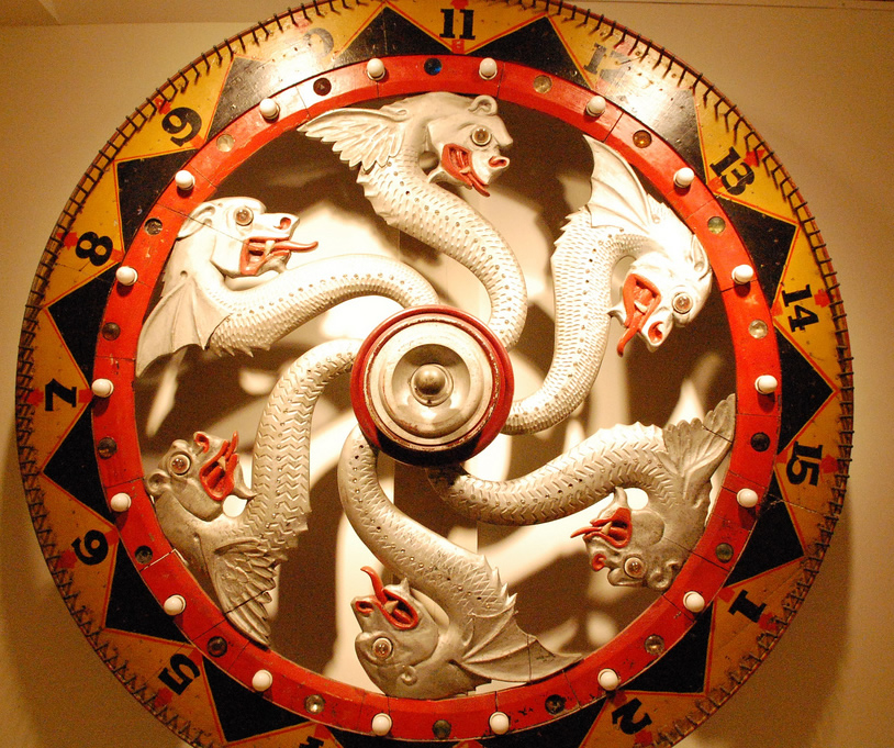 Gambling wheel, ca. 1900-1920. Wood, glass, metal, 14 x 65 in. ( 35.6 x 165.1 cm ). New-York Historical Society, 1995.2. Wikipedia Loves Art at the New-York Historical Society This photo of item # 1995.2 at the New-York Historical Society was contributed under the team name "the_adverse_possessors" as part of the Wikipedia Loves Art project in February 2009. New-York Historical Society The original photograph on Flickr was taken by _cck_—please add a comment to the original Flickr page whenever a use has been made on Wikipedia or another project. Project galleries on Flickr: this institution, this team